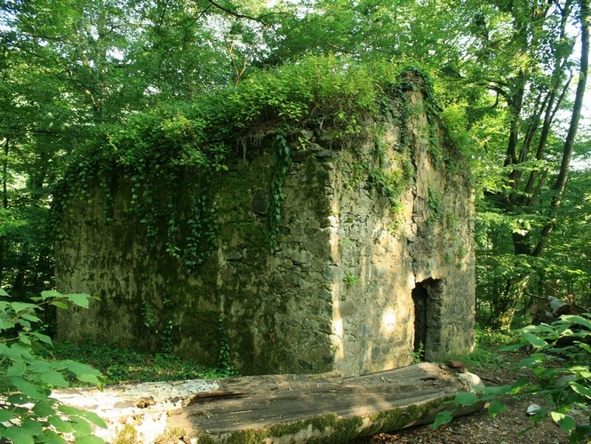 A church at the Machi fortress, Lagodekhi Municipality, Kakheti, Georgia. 8th–9th century.